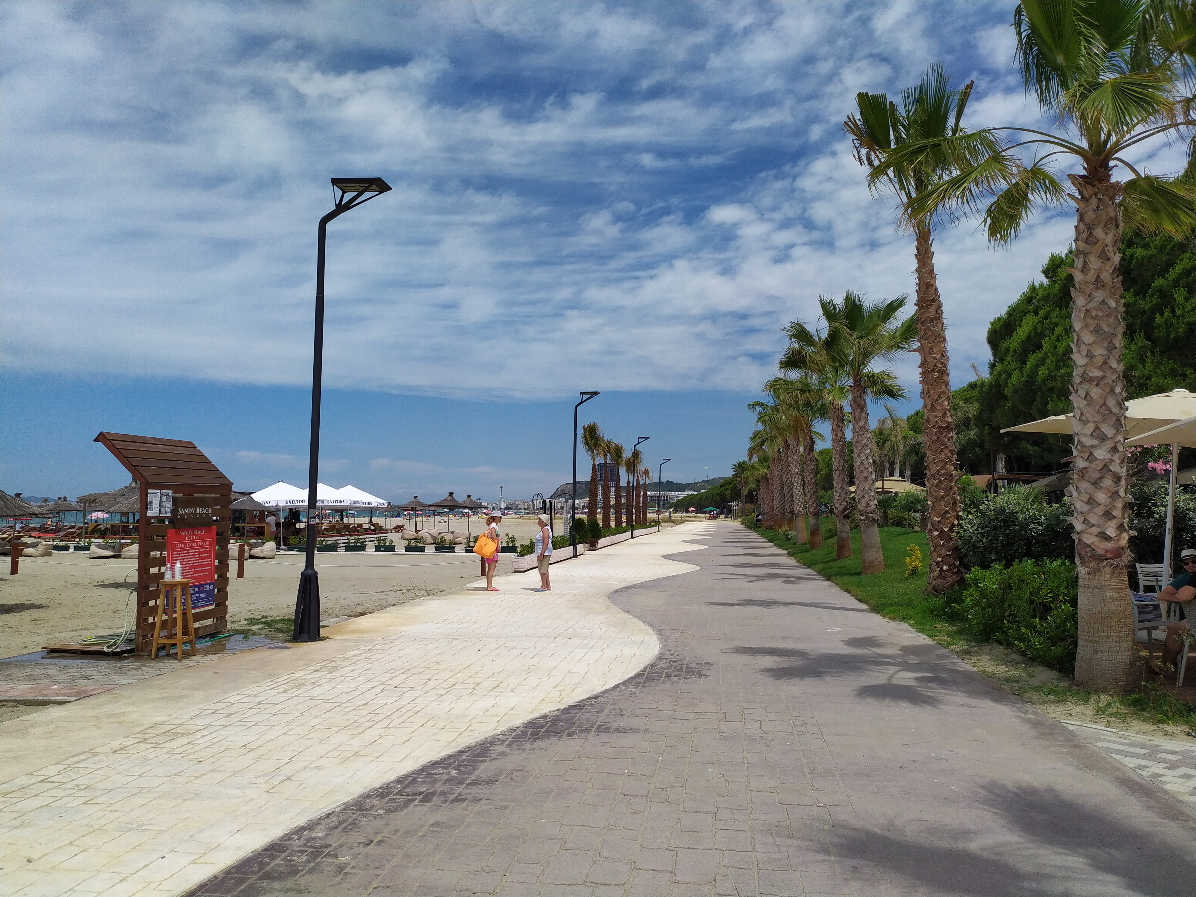 Promenade in Golem beach, Albania